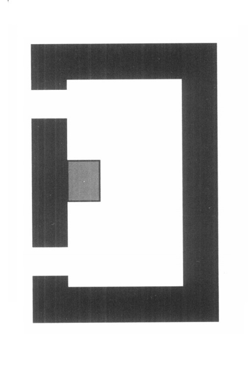 Late fourth millennium BC western Iran architectural pattern; the double door central hearth room.